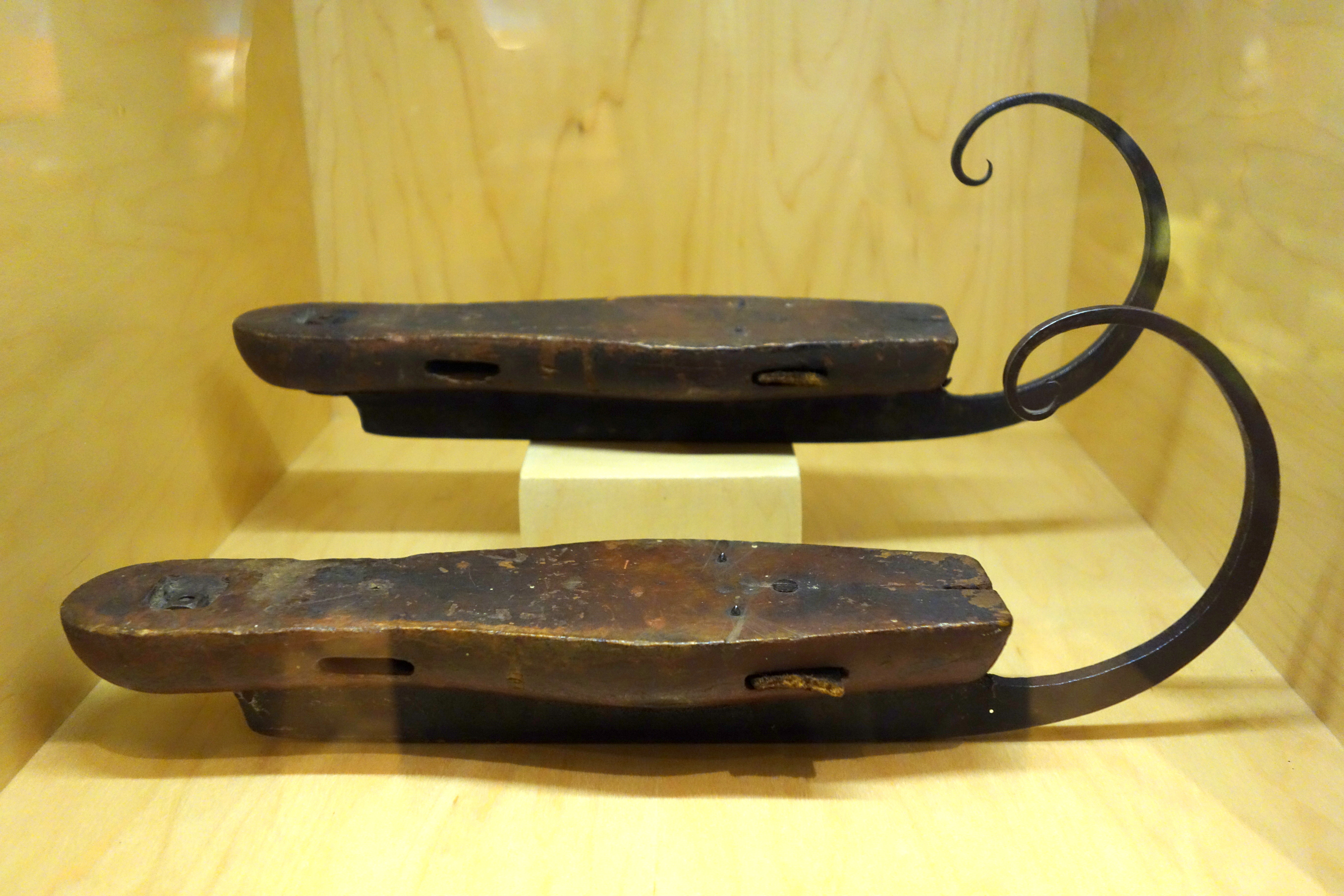 Exhibit in the Bata Shoe Museum, Toronto, Ontario, Canada. The museum permitted photography without restriction.